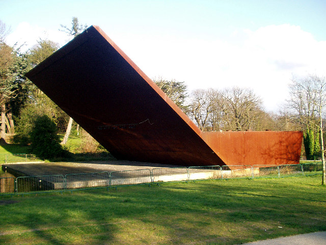 Crystal Palace Park. the bandstand